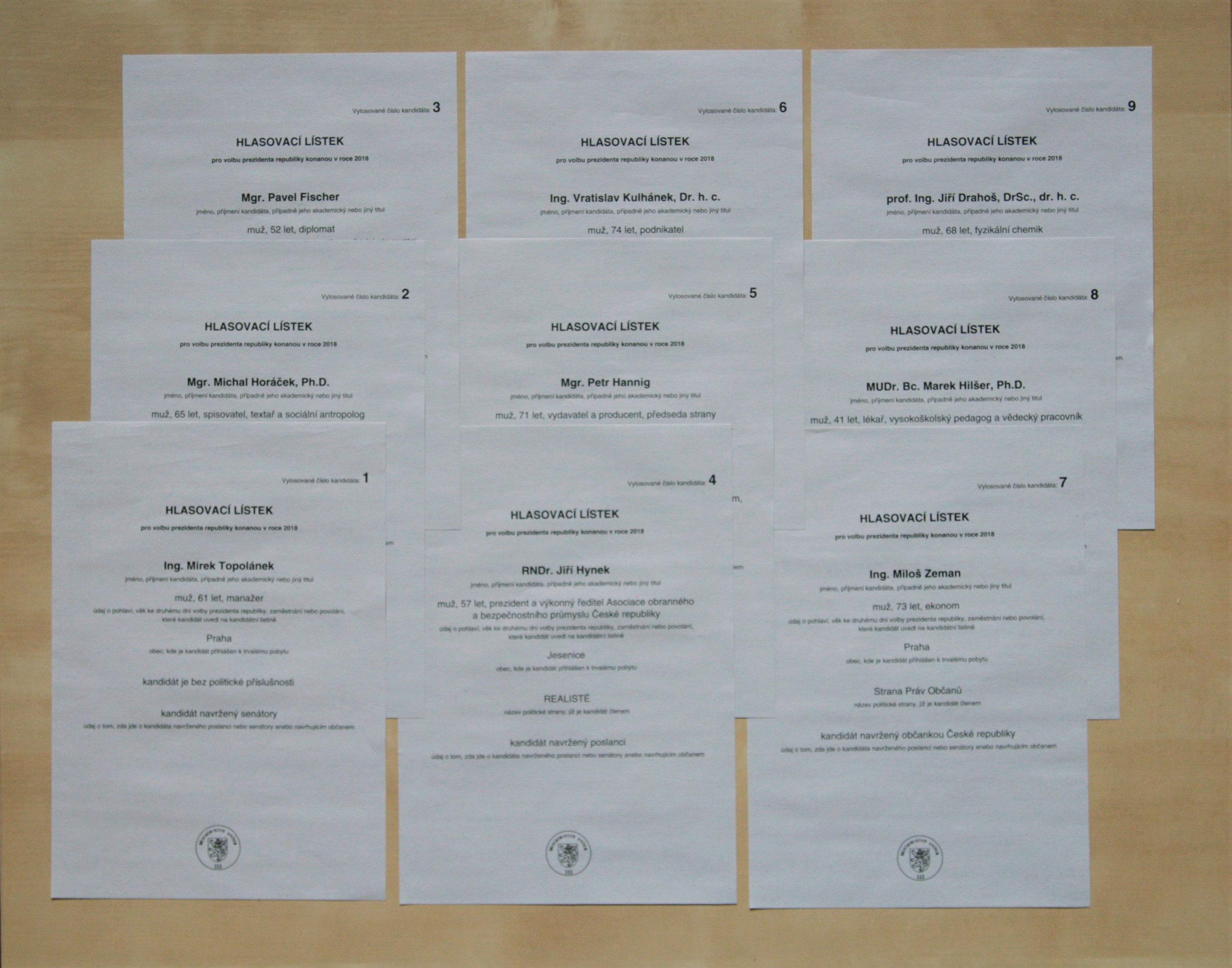 Ballot papers of the presidential election in the Czech Republic January 12-13, 2018.